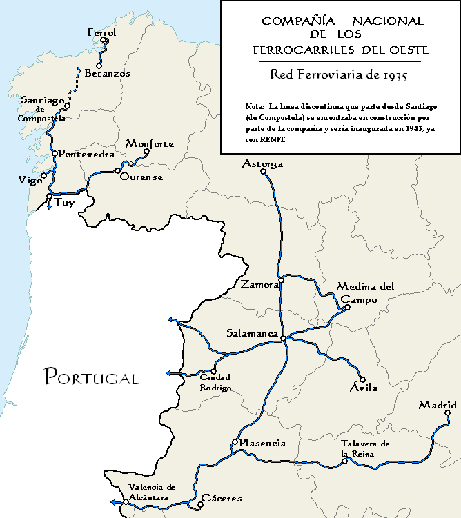 Map with the lines from the West Railways National Co. (Compañía Nacional de los Ferrocarriles del Oeste).